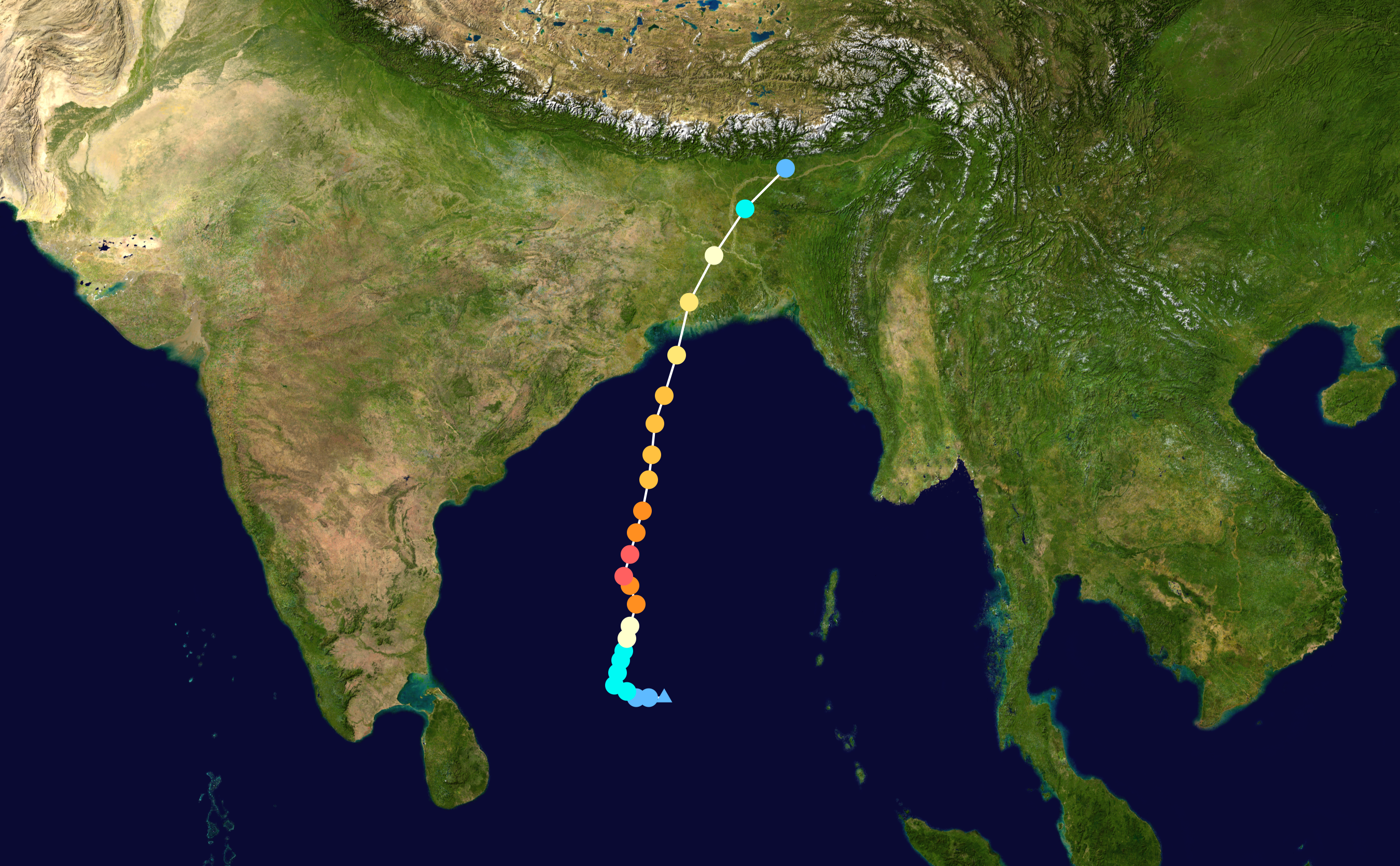 Track map of Super Cyclonic Storm Amphan of the 2020 North Indian Ocean cyclone season. The points show the location of the storm at 6-hour intervals. The colour represents the storm's maximum sustained wind speeds as classified in the Saffir–Simpson scale (see below), and the shape of the data points represent the nature of the storm, according to the legend below. Saffir–Simpson scale Tropical depression≤38 mph≤62 km/h Category 3111–129 mph178–208 km/h Tropical storm39–73 mph63–118 km/h Category 4130–156 mph209–251 km/h Category 174–95 mph119–153 km/h Category 5≥157 mph≥252 km/h Category 296–110 mph154–177 km/h Unknown Storm type Tropical cyclone Subtropical cyclone Extratropical cyclone / Remnant low / Tropical disturbance / Monsoon depression